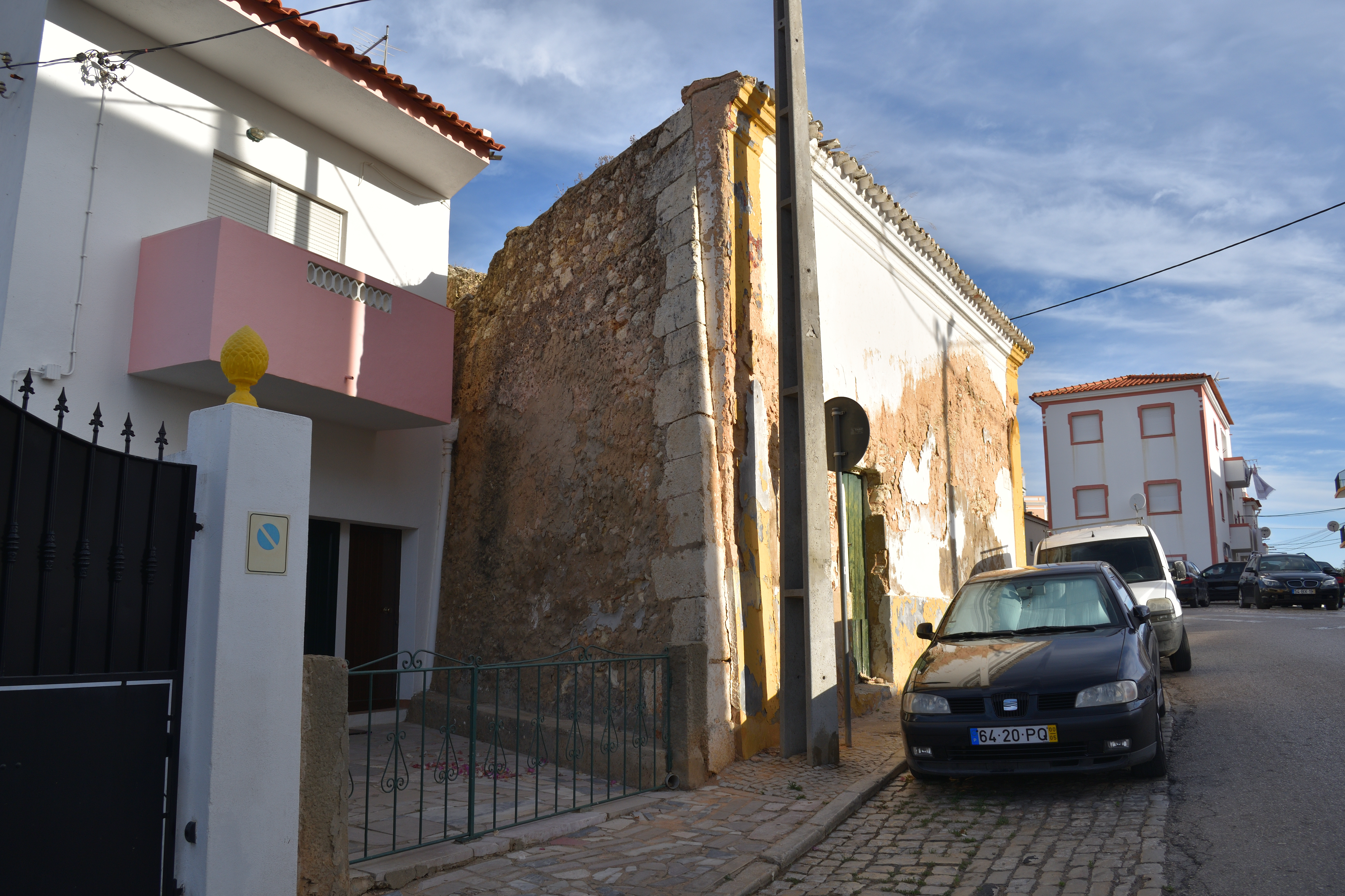 Part of the wall of Alcantarilha's Castle, Silves Municipality, Algarve - Southern Portugal.